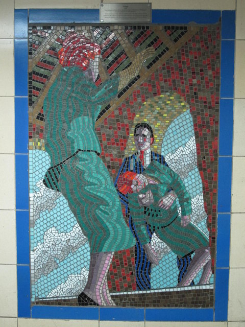 Leytonstone tube station - Hitchcock Gallery: Vertigo (1958)